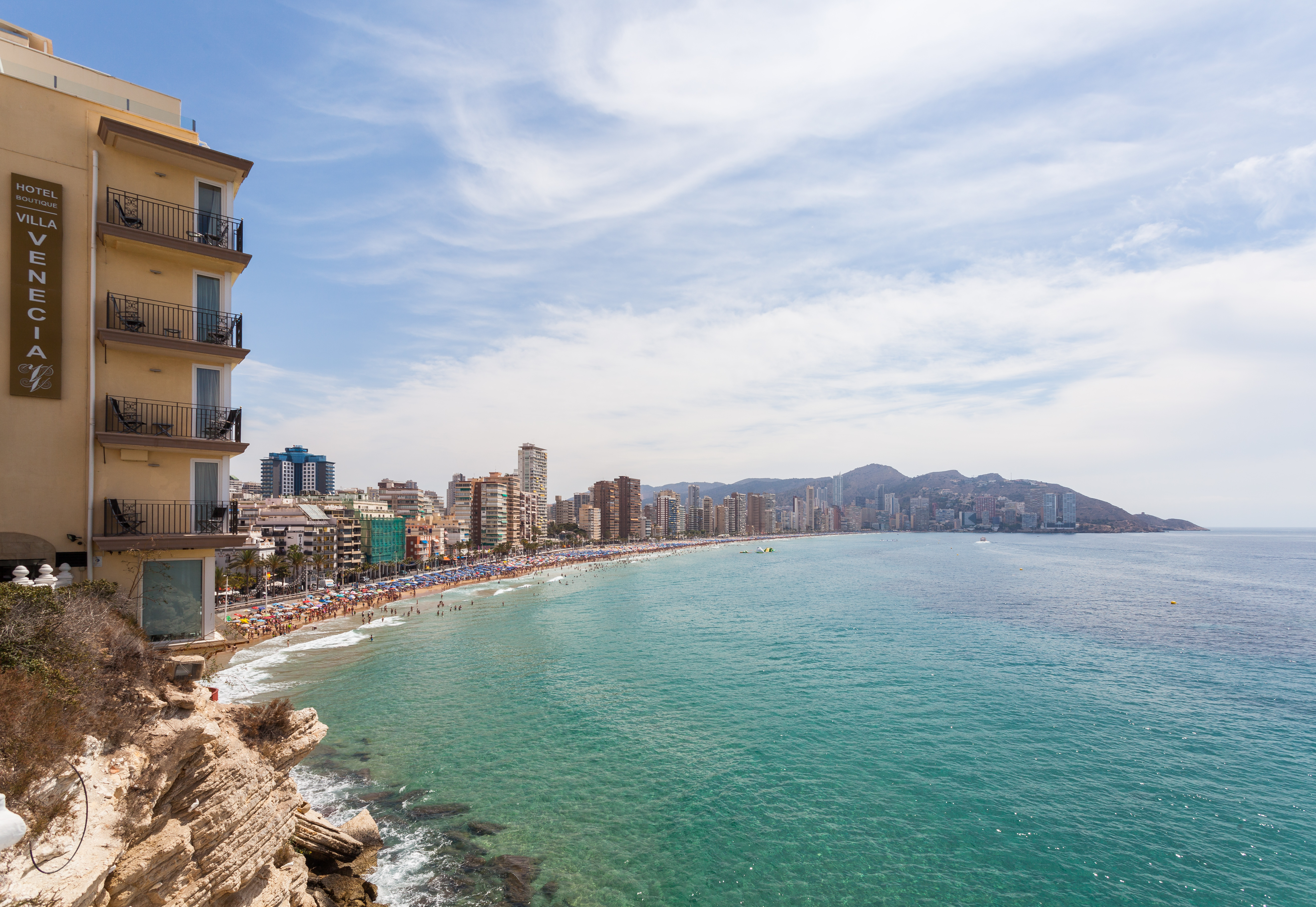 Levante beach, Benidorm, Spain